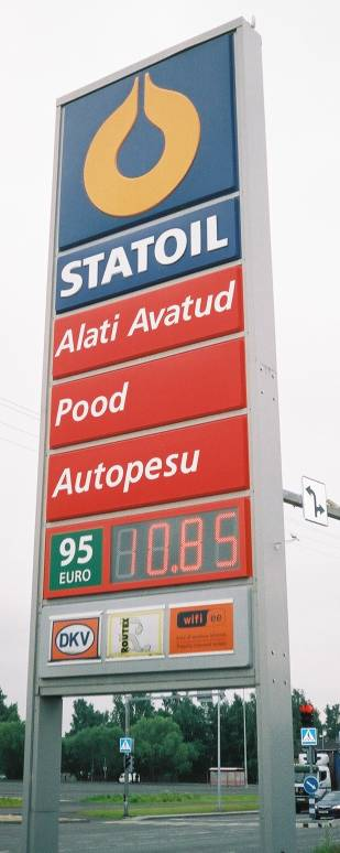 A Statoil petrol station sign in Estonia A wifi logo can be seen in the low-right part of sign